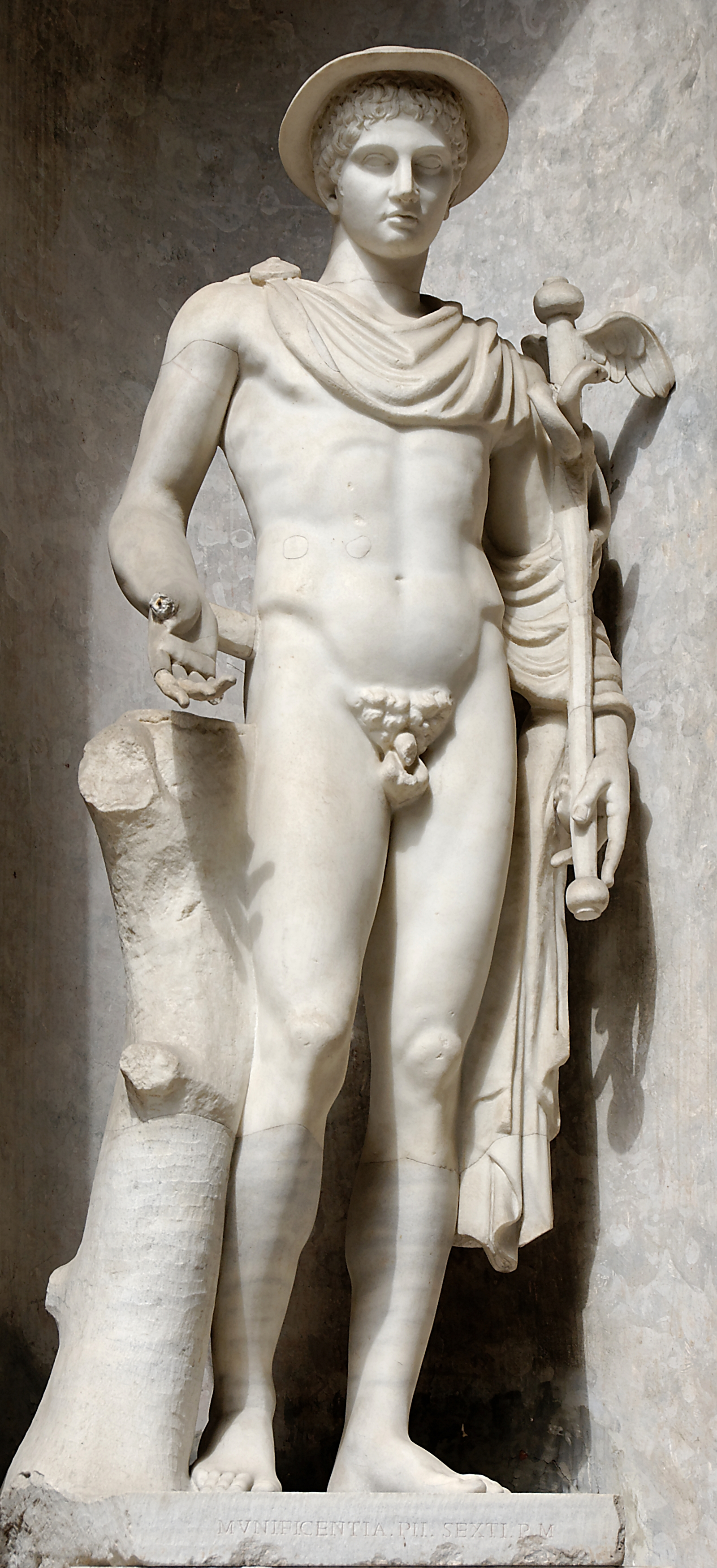 So-called "Hermes Ingenui" after the inscription on the pedestal indicating the name of the sculptor or of the donator. Hermes wears his usual attributes: kerykeion (or herald's staff), kithara, petasus (round hat), traveller's cloak and winged temples. Marble, Roman copy of the 2nd century BC after a Greek original of the 5th century BC.